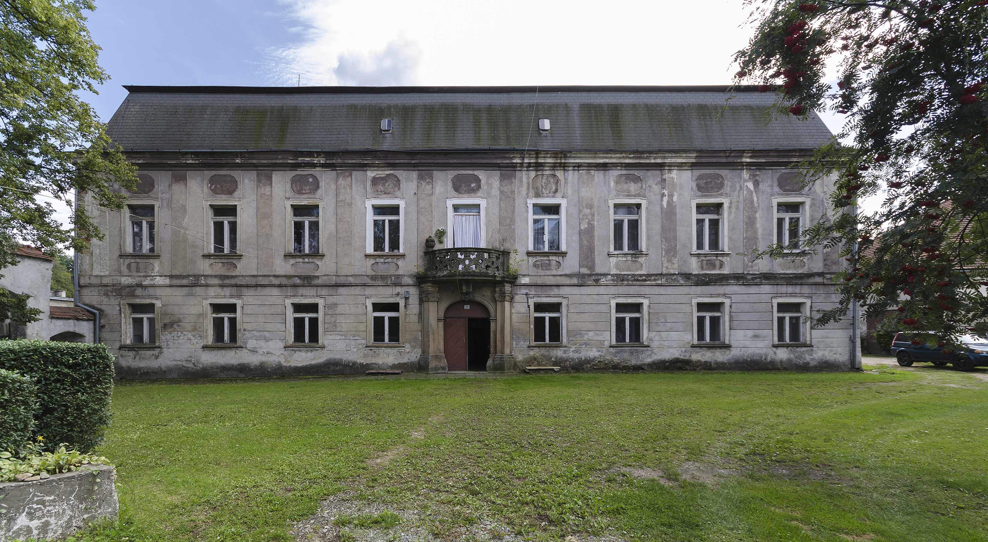 Palace in Krosnowice